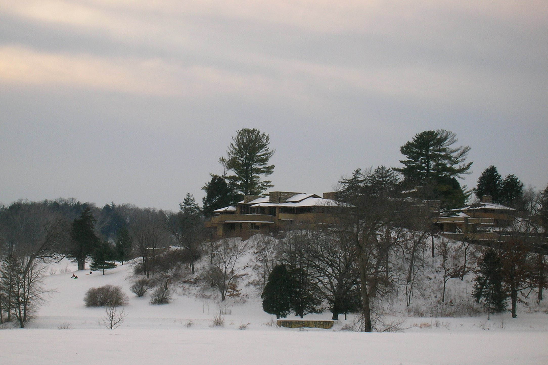 Jan. 4th, 2008 Frank Lloyd Wright's Taliesin, outside of Spring Green, Wis. Taken from Cty. Hwy C.